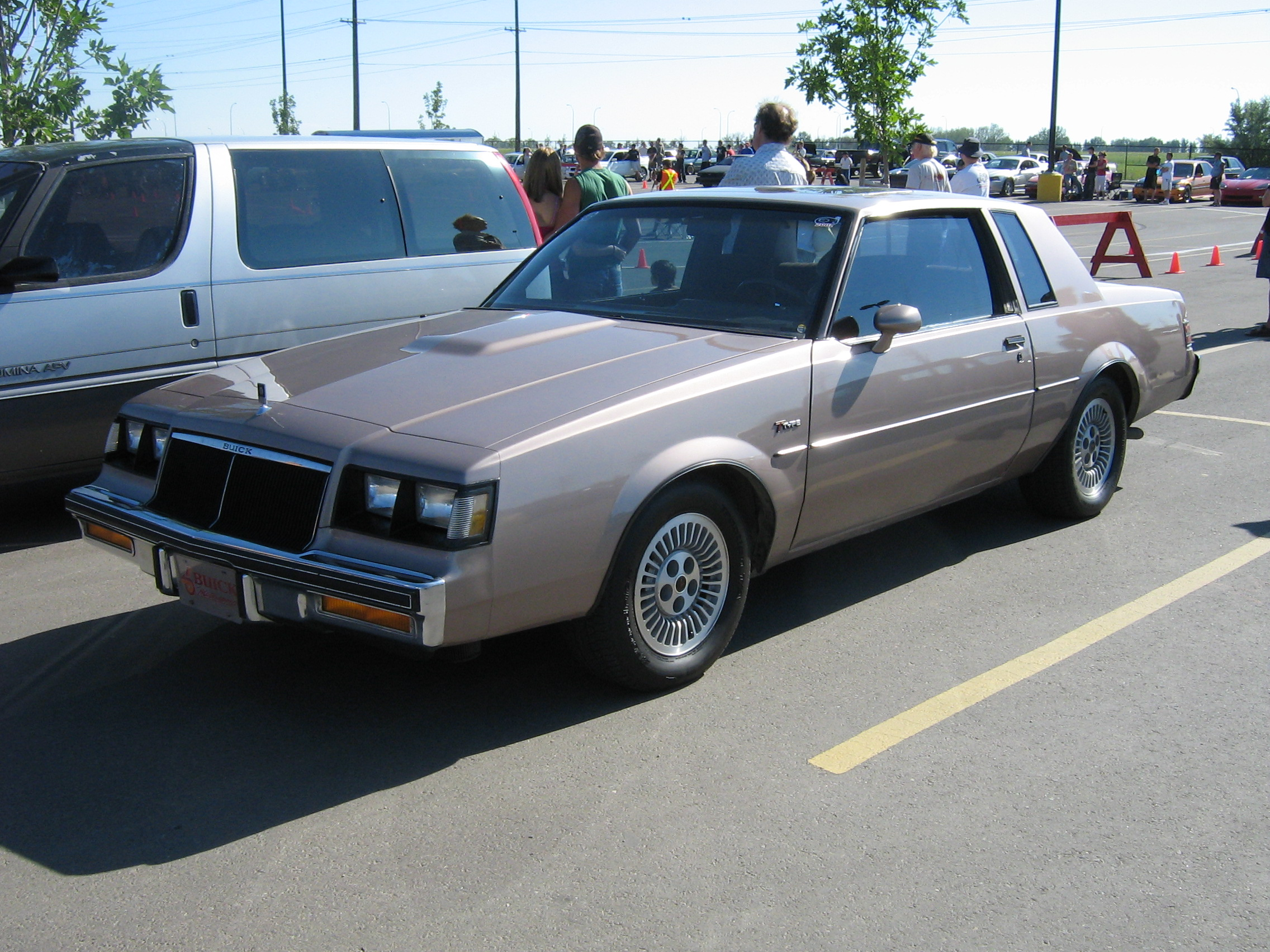 Buick T-Type at the auto-x